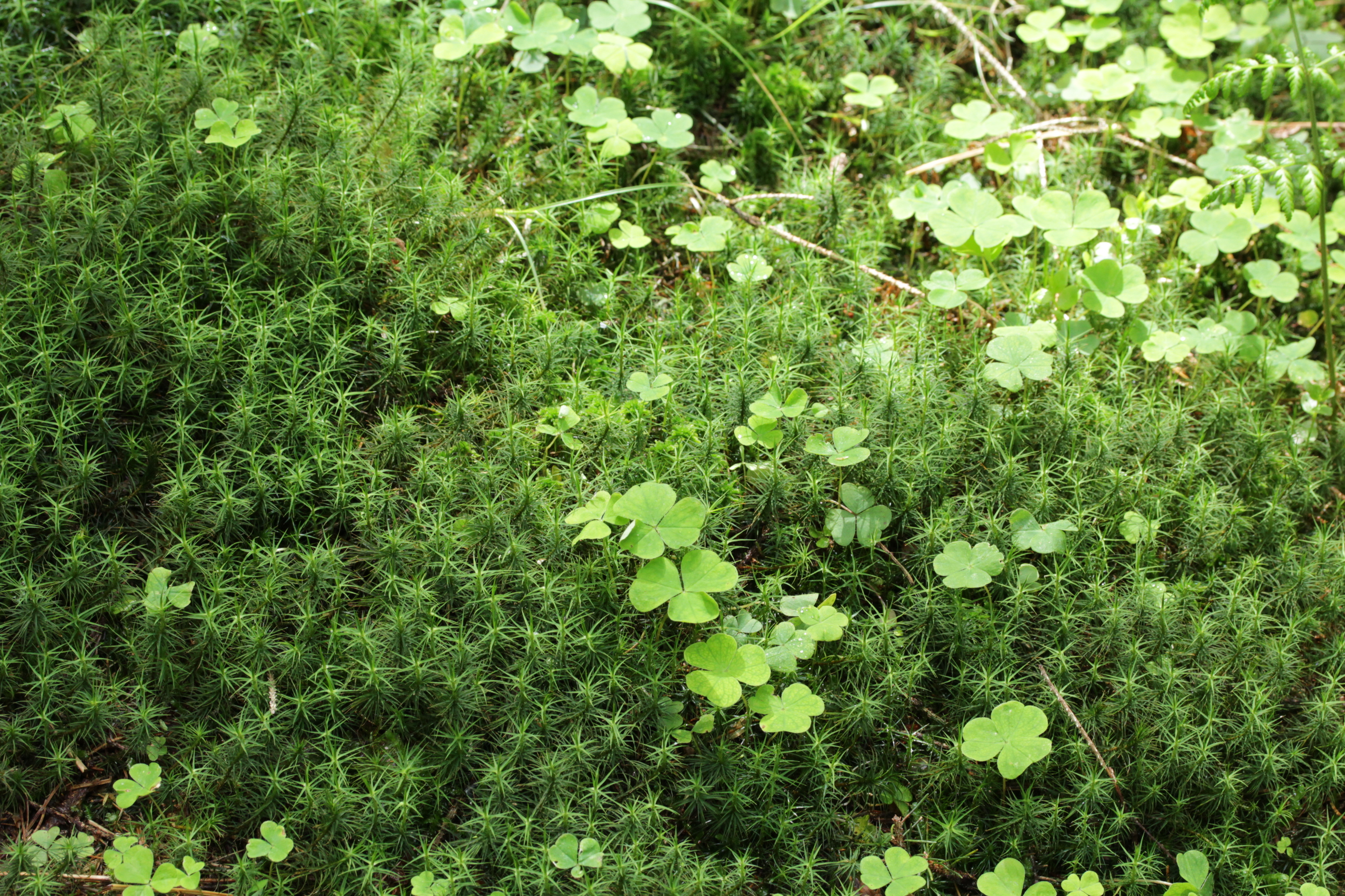 Polytrichum commune